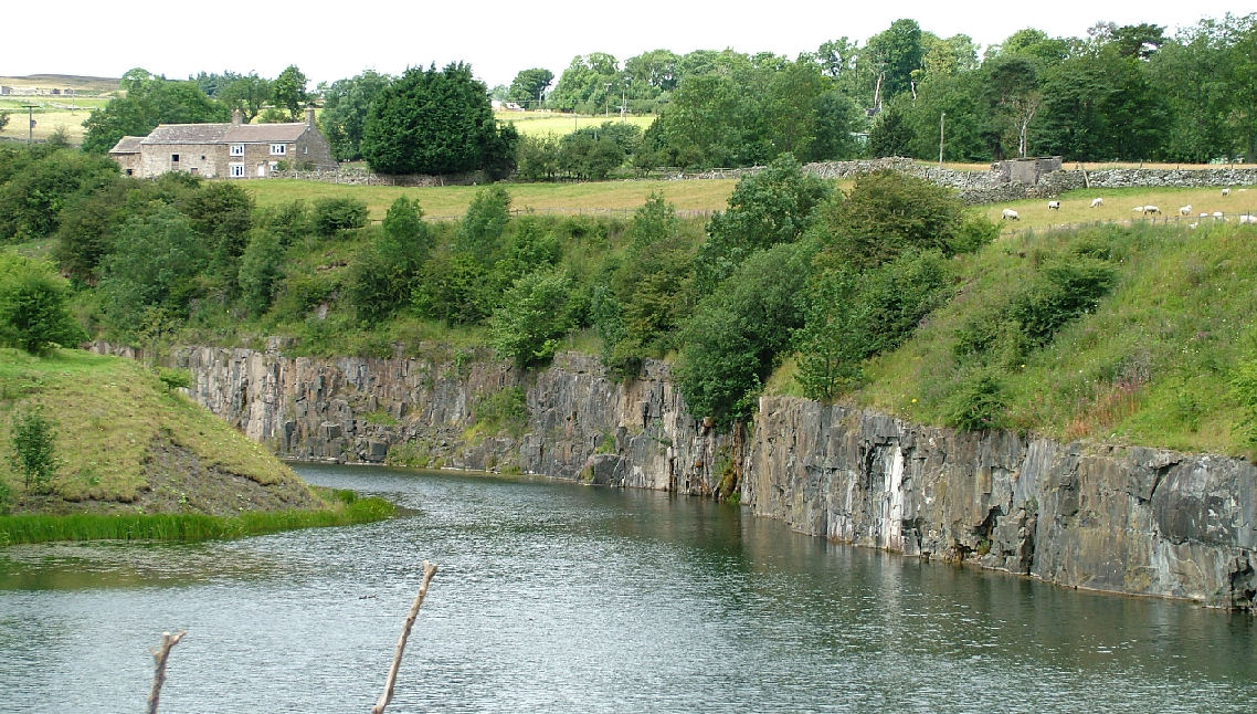 Greenfoot Quarry, County Durham, an abandoned quarry that is now a geological Site of Special Scientific Interest because of its exposure of the Great Whin Sill